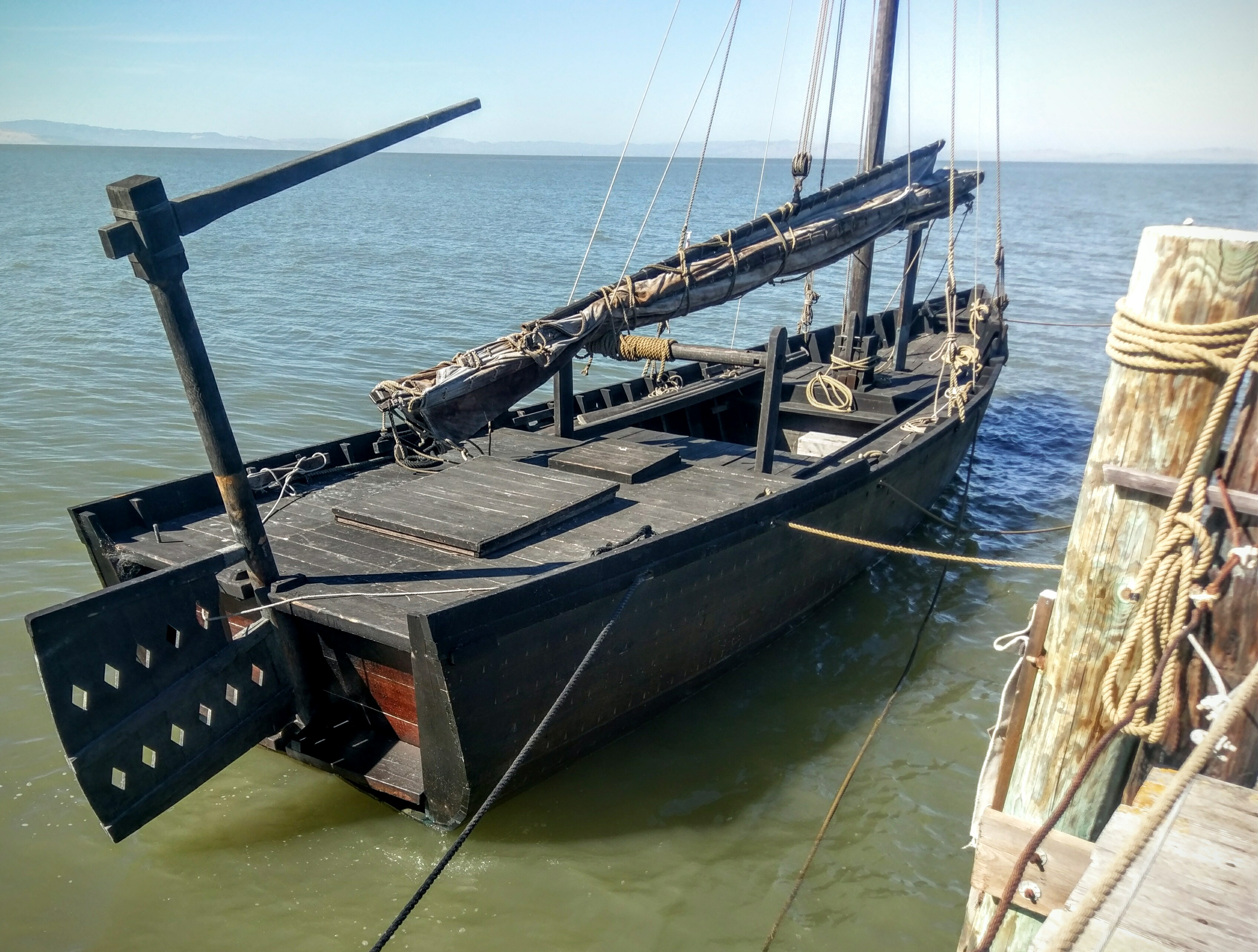 The traditional Chinese junk "Grace Quan" docked at China Camp State Park, in San Rafael, California. Photo by Jim Heaphy.